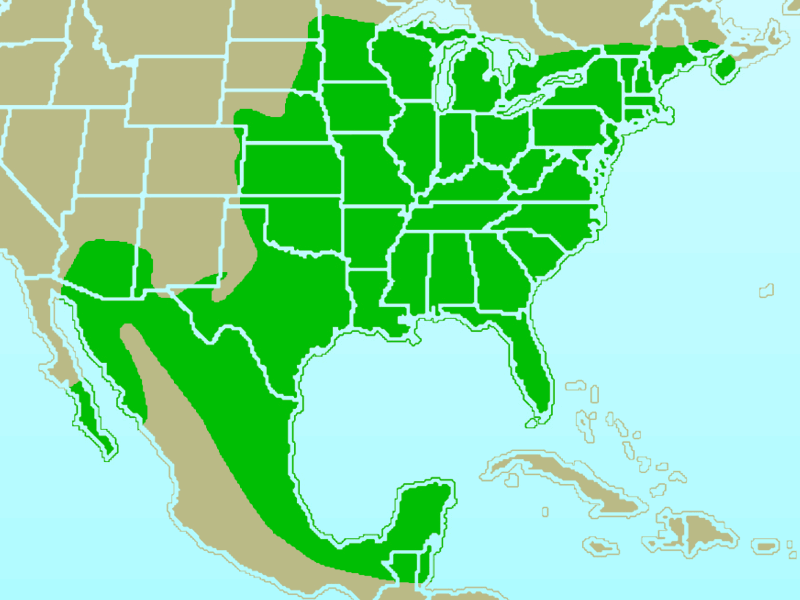 Approximate range/distribution map of the Northern Cardinal (Cardinalis cardinalis). In keeping with WikiProject: Birds guidelines, yellow indicates the summer-only range, blue indicates the winter-only range, and green indicates the year-round range of the species.